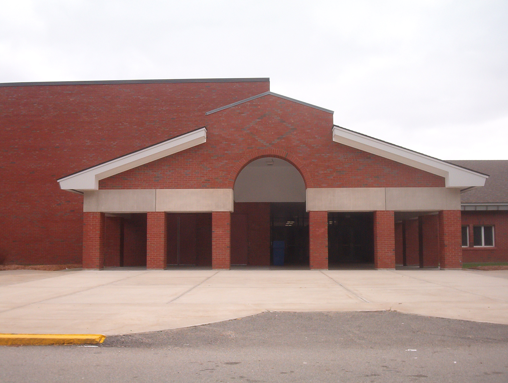 Entrance to Fairground Middle School, not a great picture, IMO. Taken by me.